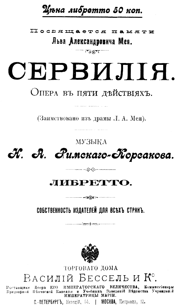 Nikolai Rimsky-Korsakov - Servilia - title page of the libretto